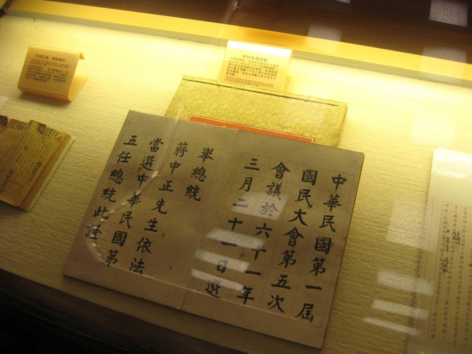 Certificate of Presidency of Chiang Kai-shek in March 21, 1972 from National Assembly, Republic of China.